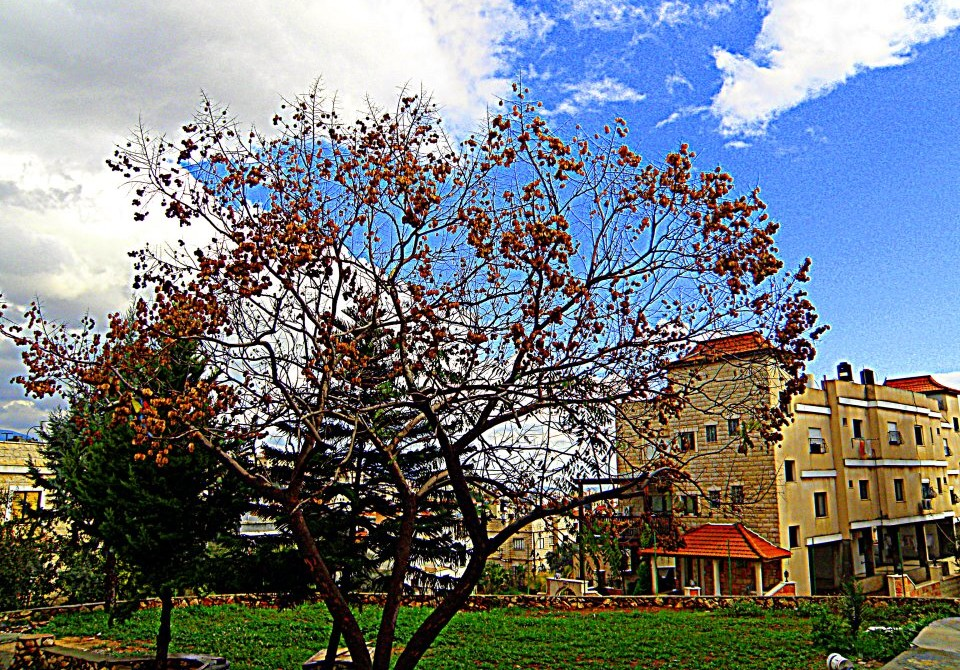 Geography of Israel